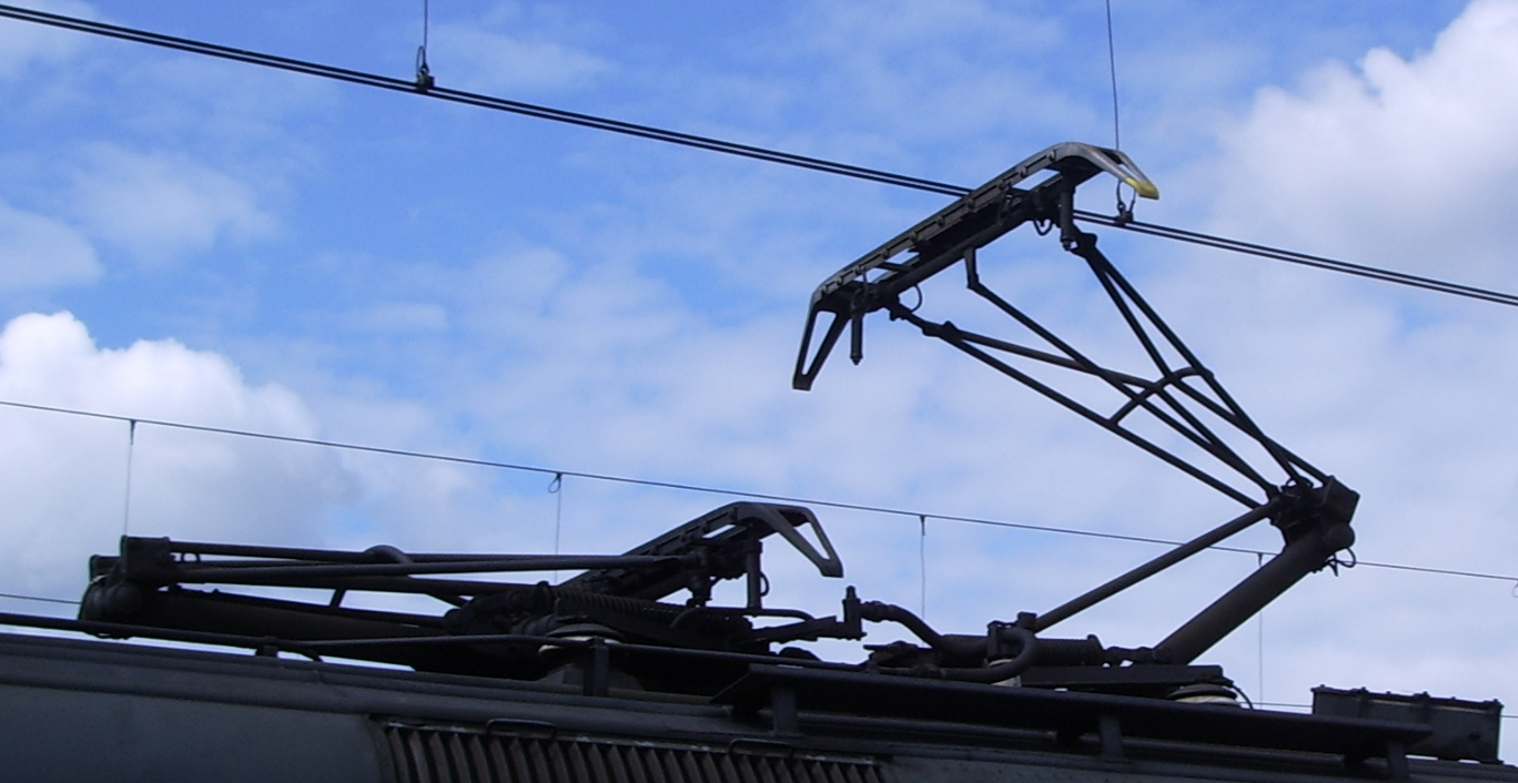 Stroomafnemer (pantograph) of a Dutch Plan V EMU, Utrecht Centraal, april 2006.